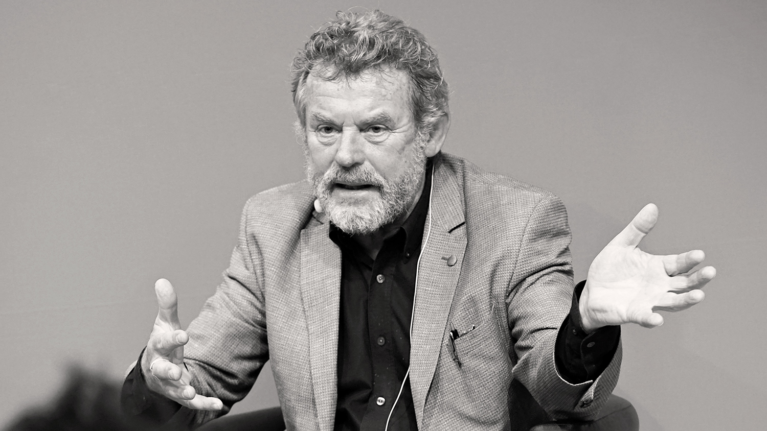 Kjeld Hansen, a Danish writer and journalist focusing at environmental issues - at the Copenhagen Book Fair "BogForum 2017", Copenhagen, Denmark.